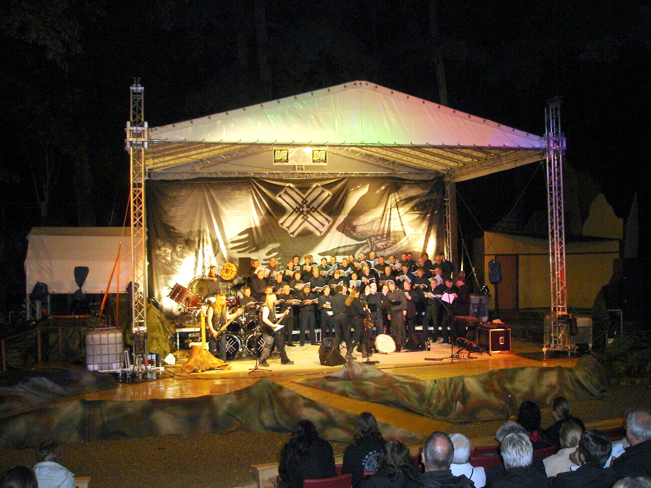 Estonian National Male Choir RAM and Metsatöll performing together in Reutlingen